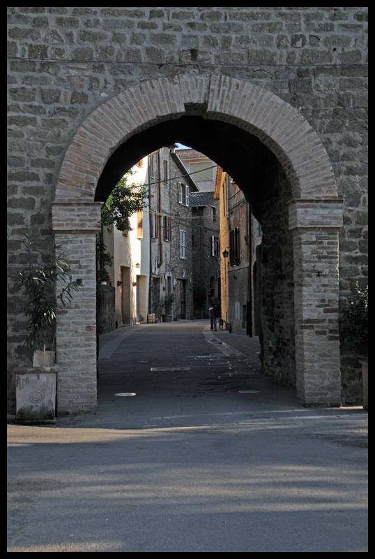 oooooooooooooooooooooooooo